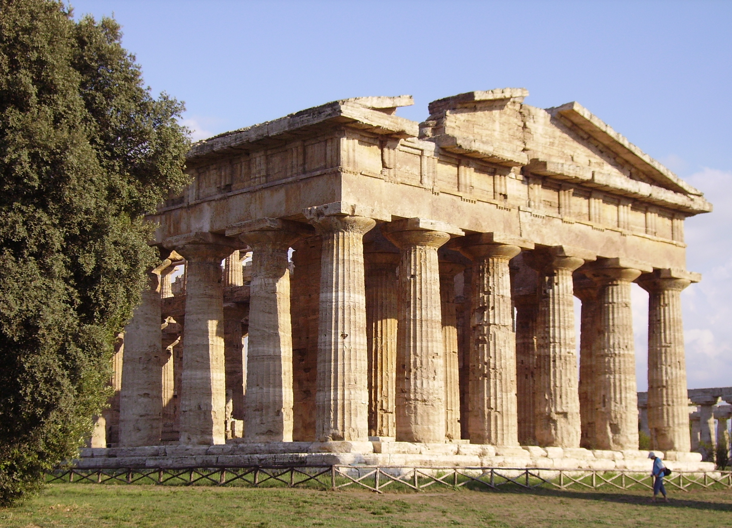 Temple of Apollo in Paestum.